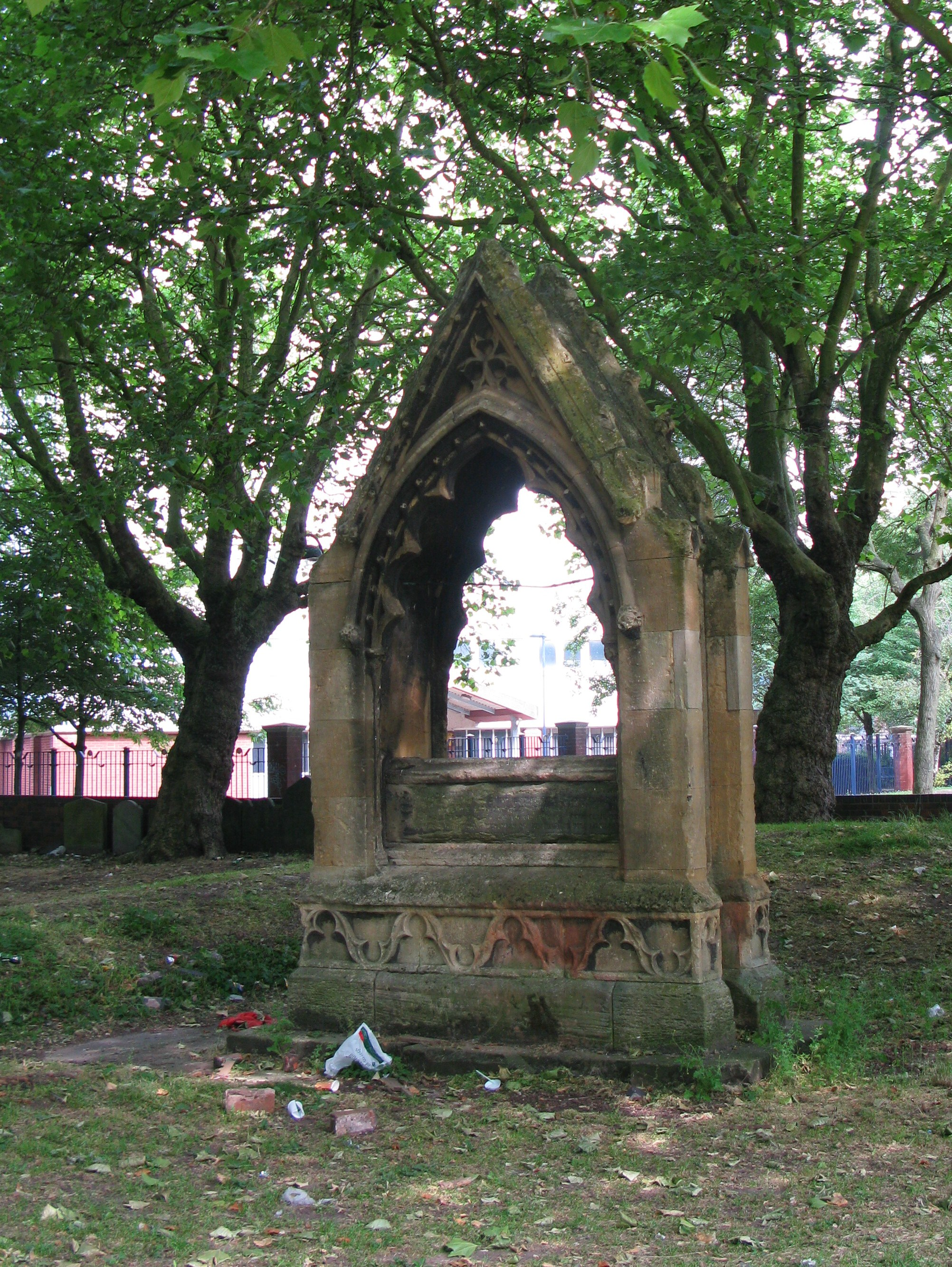 Grade II